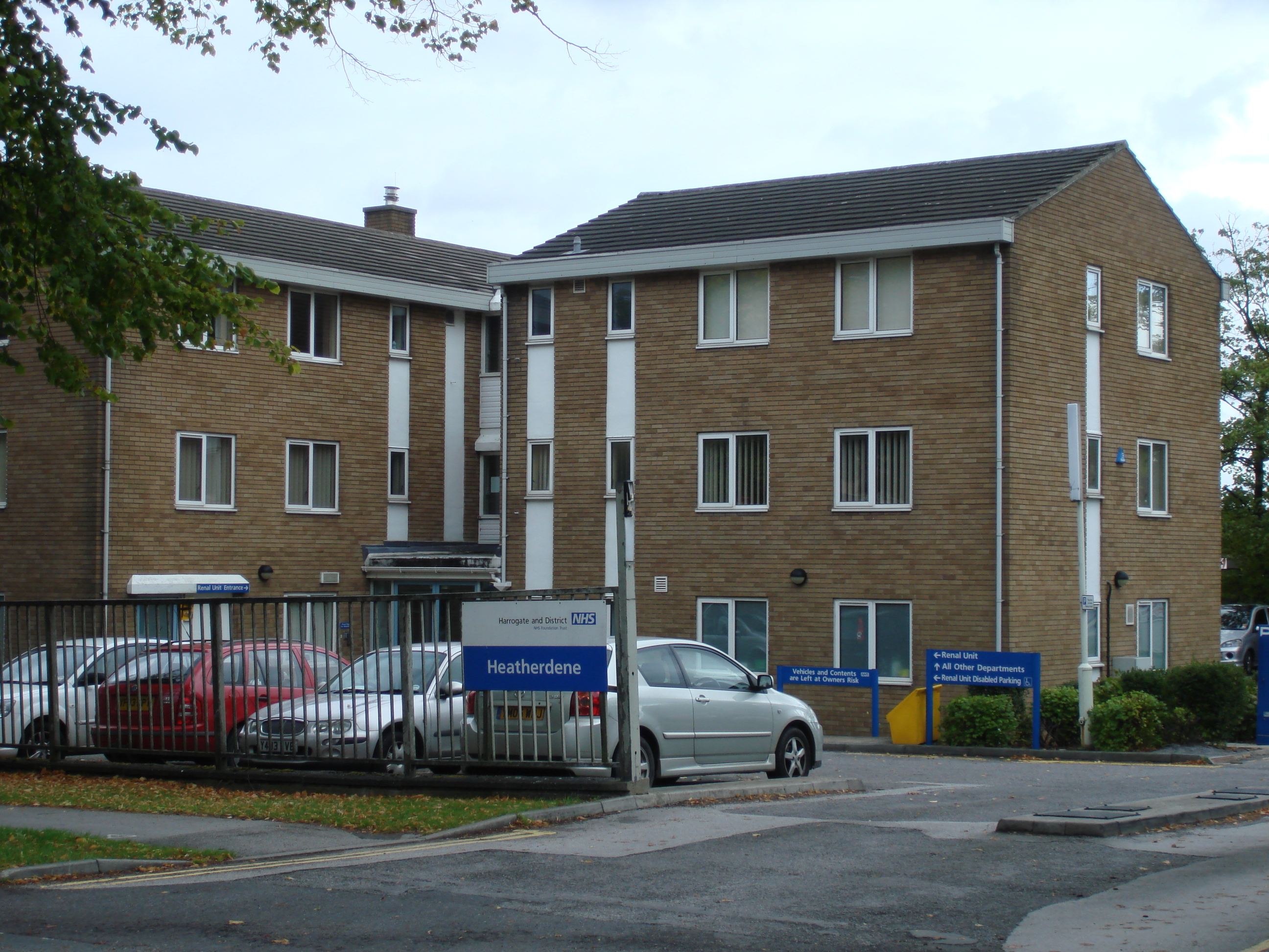 Heatherdene at Harrogate District Hospital